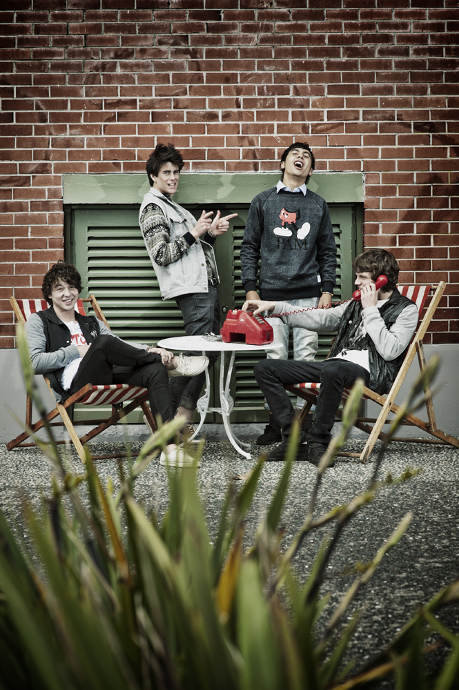 Winners of 2010 Smokefreerockquest Competition